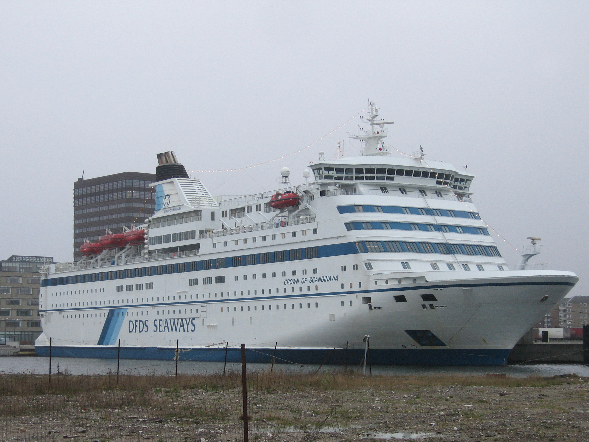 Crown of Scandinavia in Copenhagen Harbor